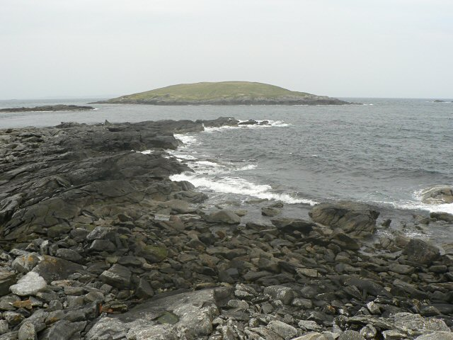 Lunna Holm from Land Taing. This is the very tip of the peninsula that runs north-east from Lunna. Shetland Islands.